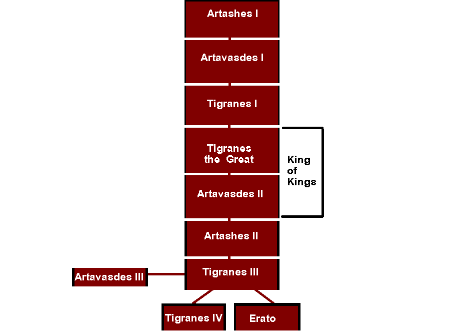 Artaxiad Dynasty